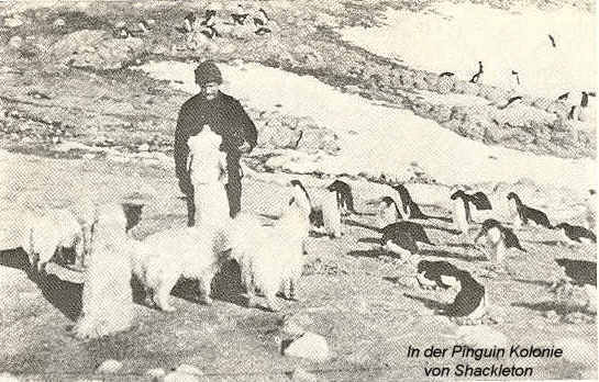 Самоеды в полярной экспедиции